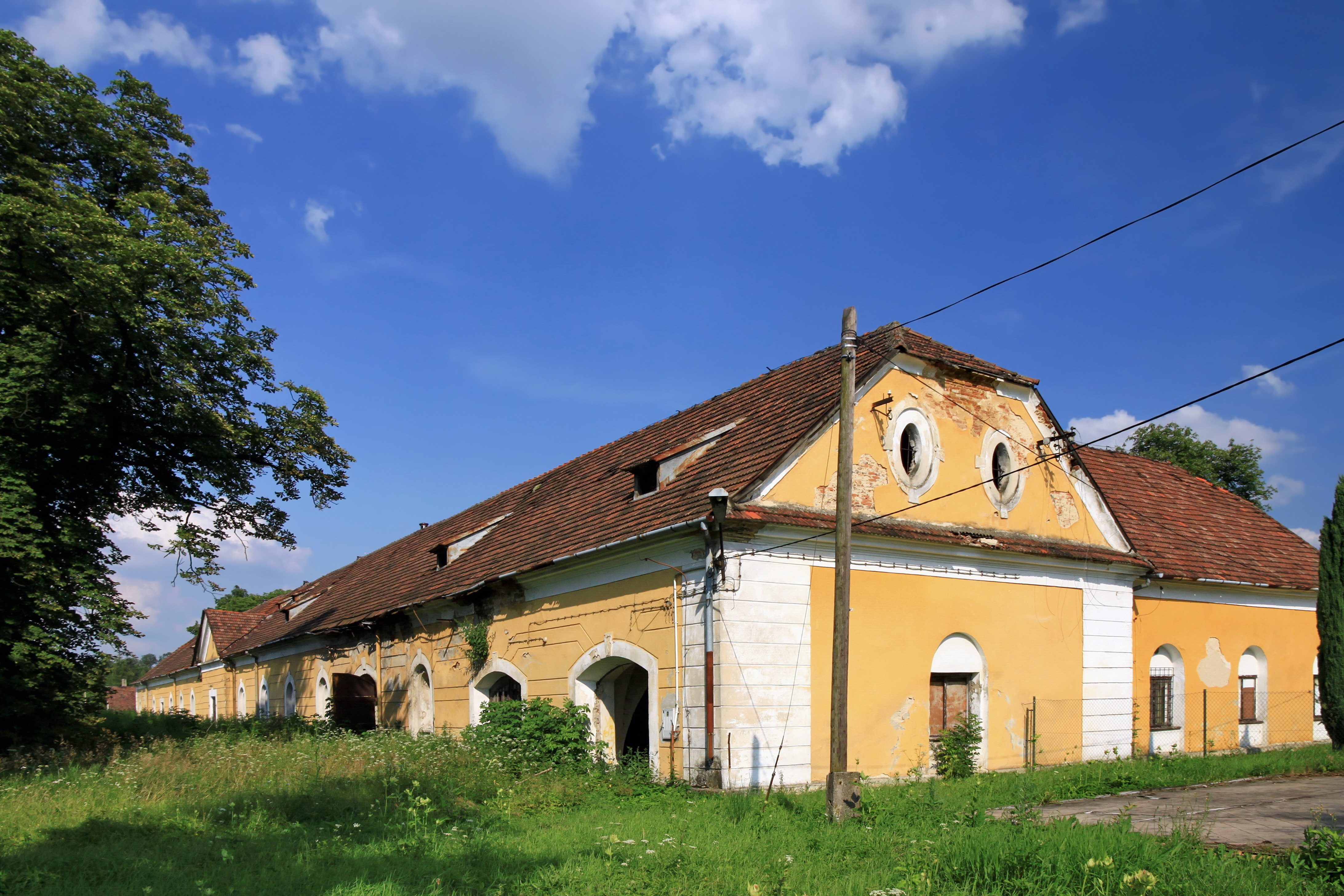 Bażanowice, manor house, 18th century, 19th century